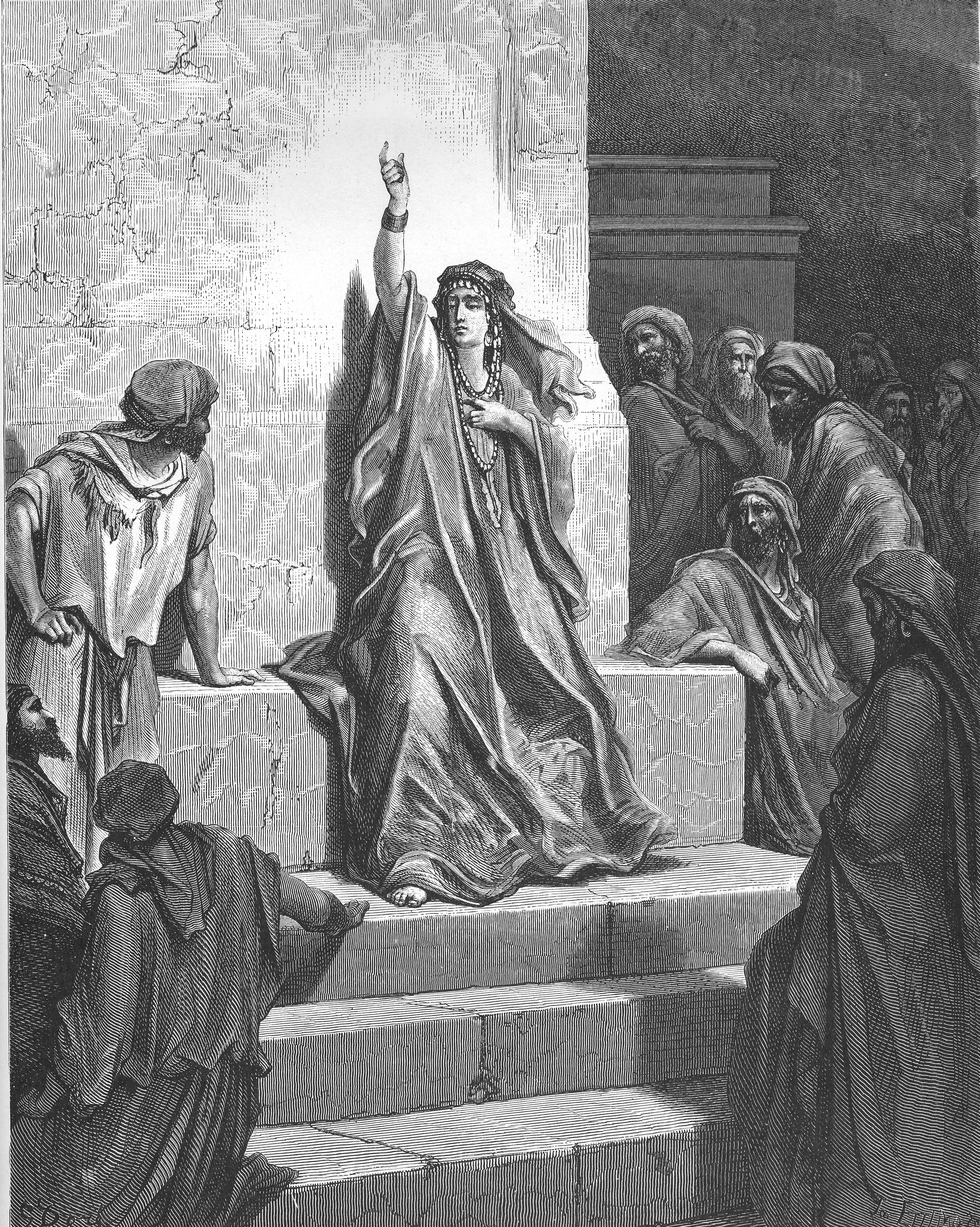 Deborah Praises Jael (Jud. 5:1-3,24-31)